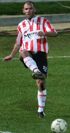 Greg O'Halloran Personal photo 2007 Cropped and resized